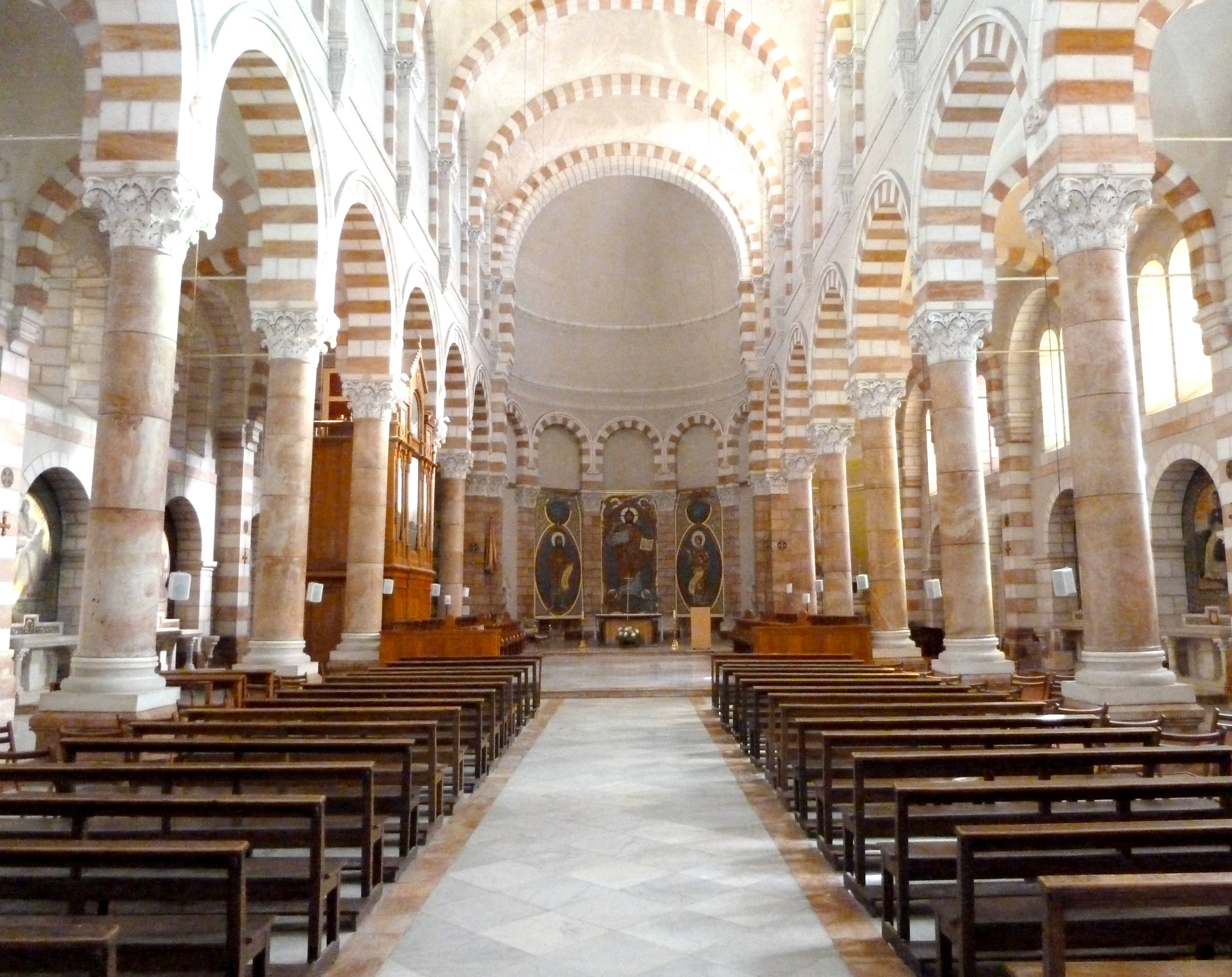 Jerusalem Saint Stephen church interior